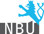 Logo of the National Security Authority of the Czech Republic